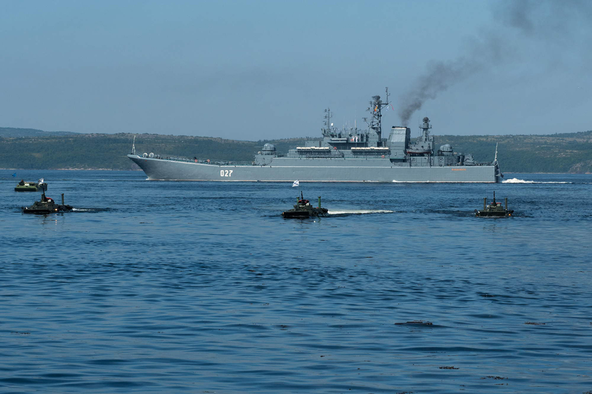 Exercise of the 61th Separate Naval Infantry Brigade (Russia).